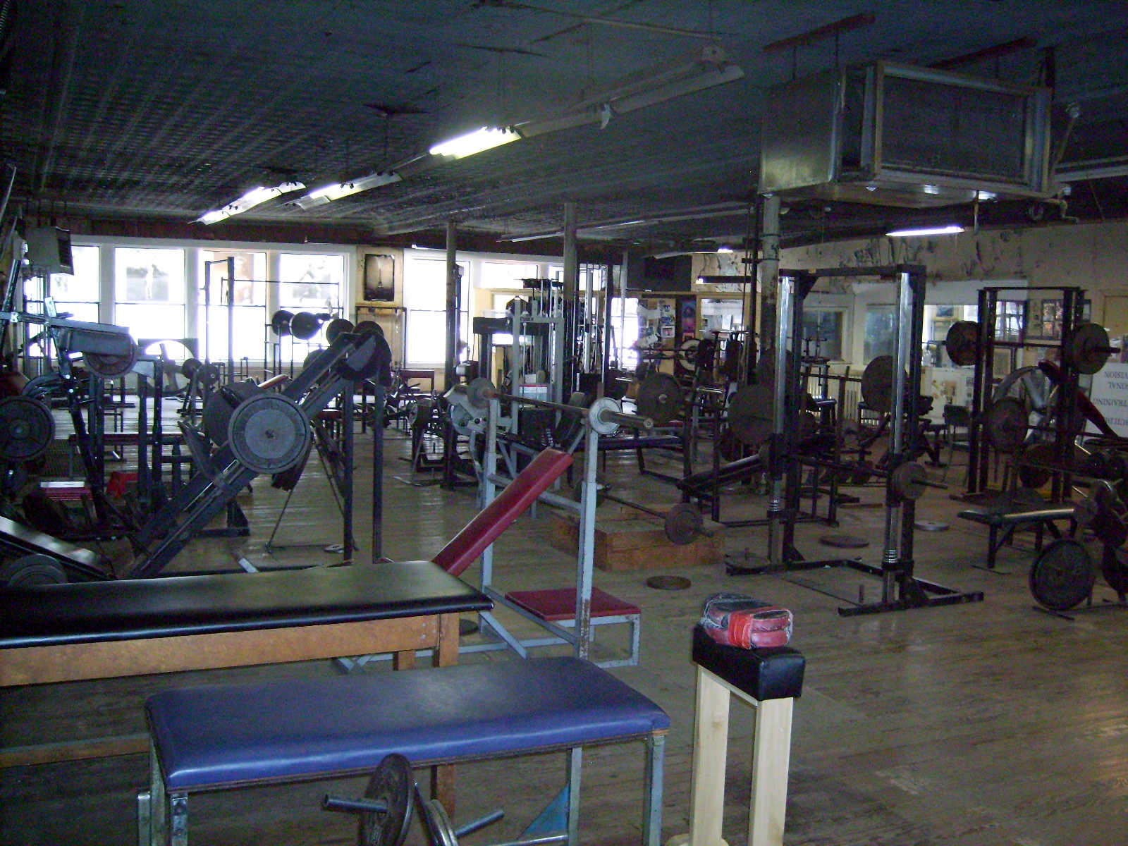 A photograph of Doug's Gym in Dallas, Texas.